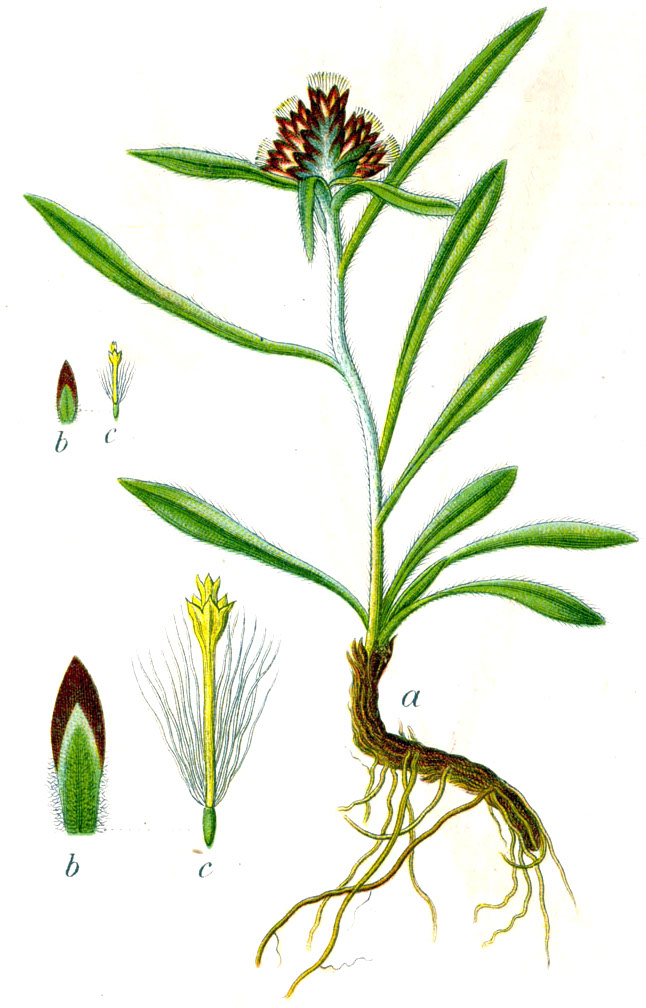 Gnaphalium supinum L., syn. Argyrotegium poliochlorum (N.G.Walsh) J.M.Ward & Breitw. Original Caption Zwerg-Ruhrkraut, Gnaphalium supinum